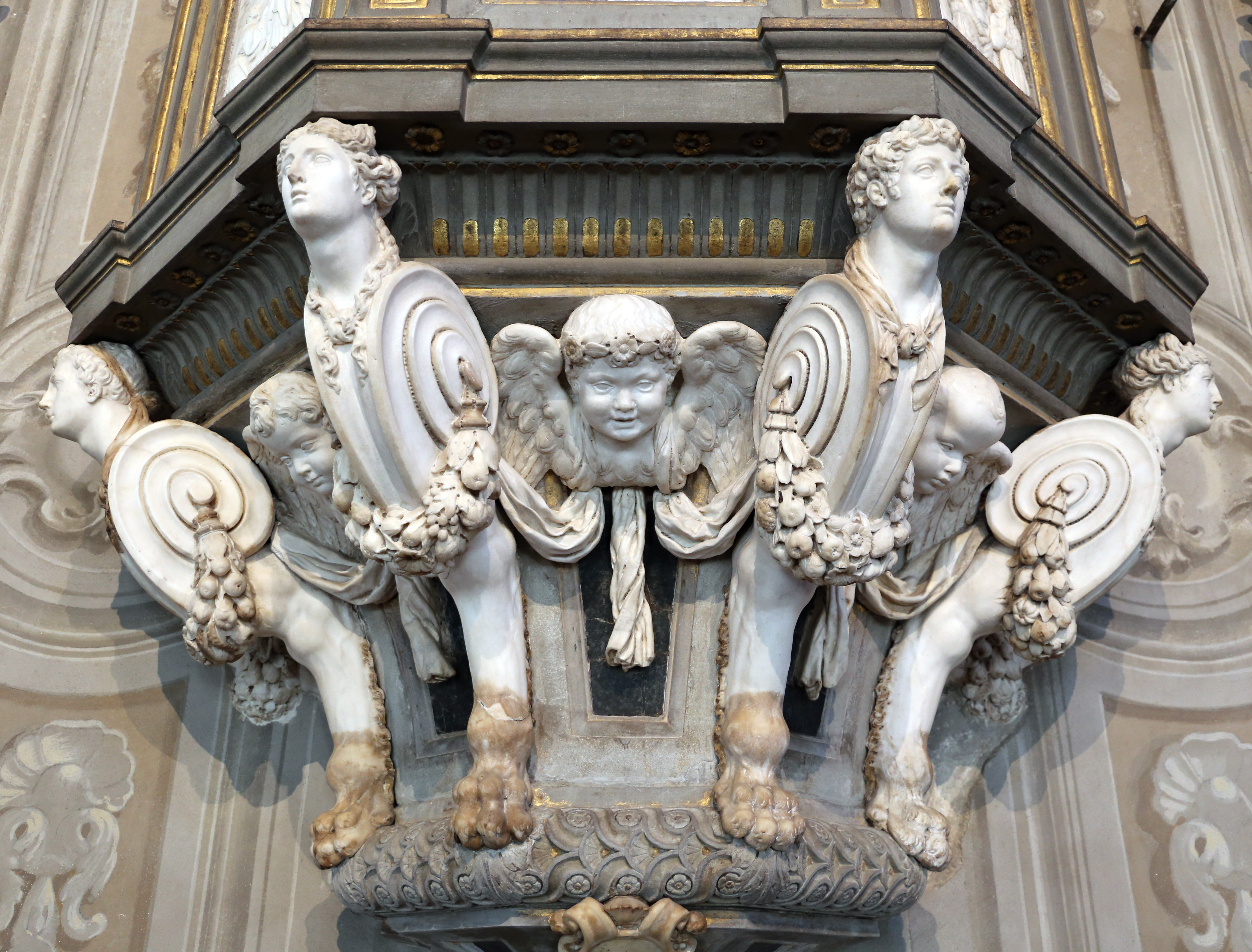 Ognissanti (Florence) - Interior